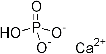 chemical structure of calcium biphosphate (calcium hydrogen phosphate)